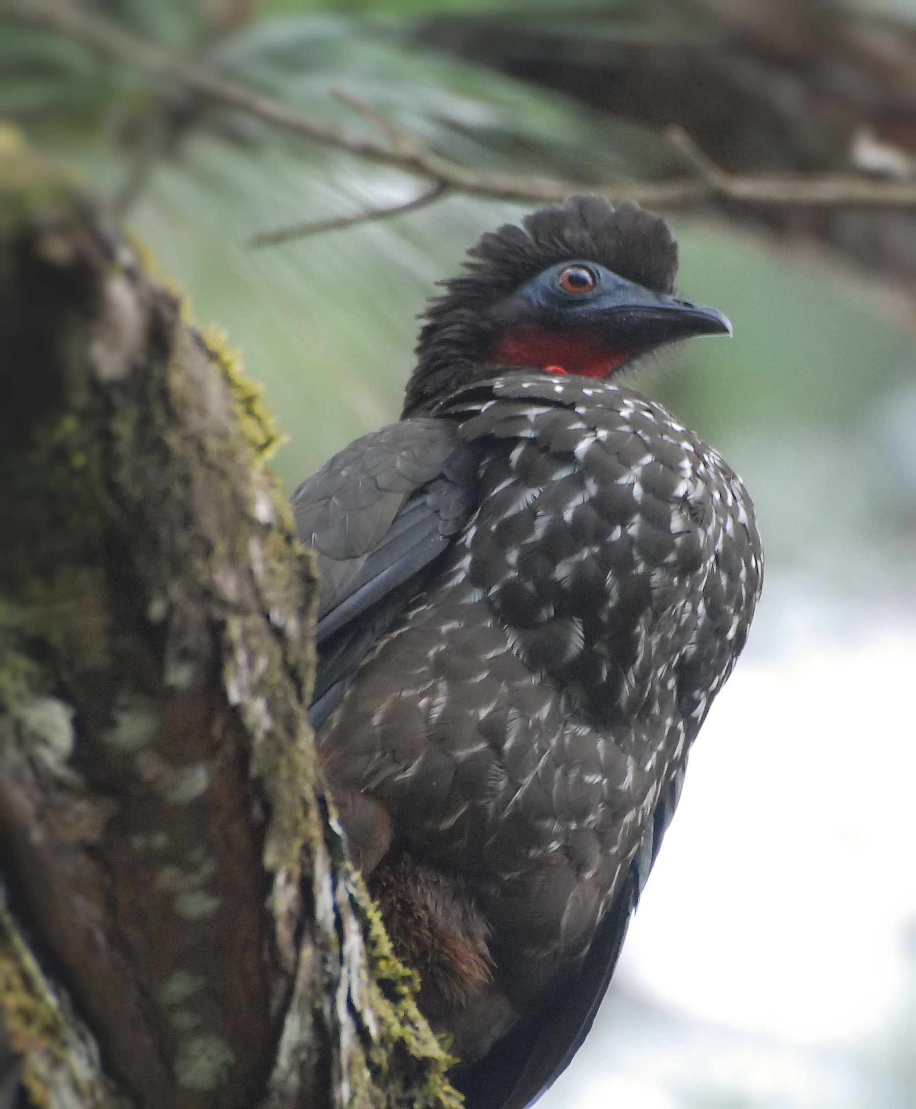 Crested Guan (Penelope purpurascens) at the Arenal Volcano Lodge, Costa Rica